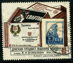 A combination of an advertising label (for the Rostov-on-Don tobacco factory) and a definitive stamp of the Soviet Union (1923, CPA #104, Scott #255).